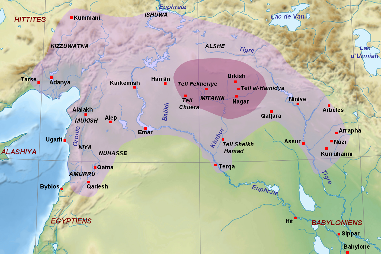 Map of the kingdom of Mitanni at its maximal extension, with the main cities and archaeological sites. Adapted from F. Joannès (dir.), Dictionnaire de la civilisation mésopotamienne, Paris, 2001, p. 534 (map by M. Sauvage and B. Lion), and M. Roaf, Cultural Atlas of Mesopotamia and the Ancient Near East, Oxford, 2004, p. 134 with the addition of Terqa among the vassals of Mitanni. Dark purple : the mitannian heartland ; light purple : the approximate maximal extension of the mitannian dominion.